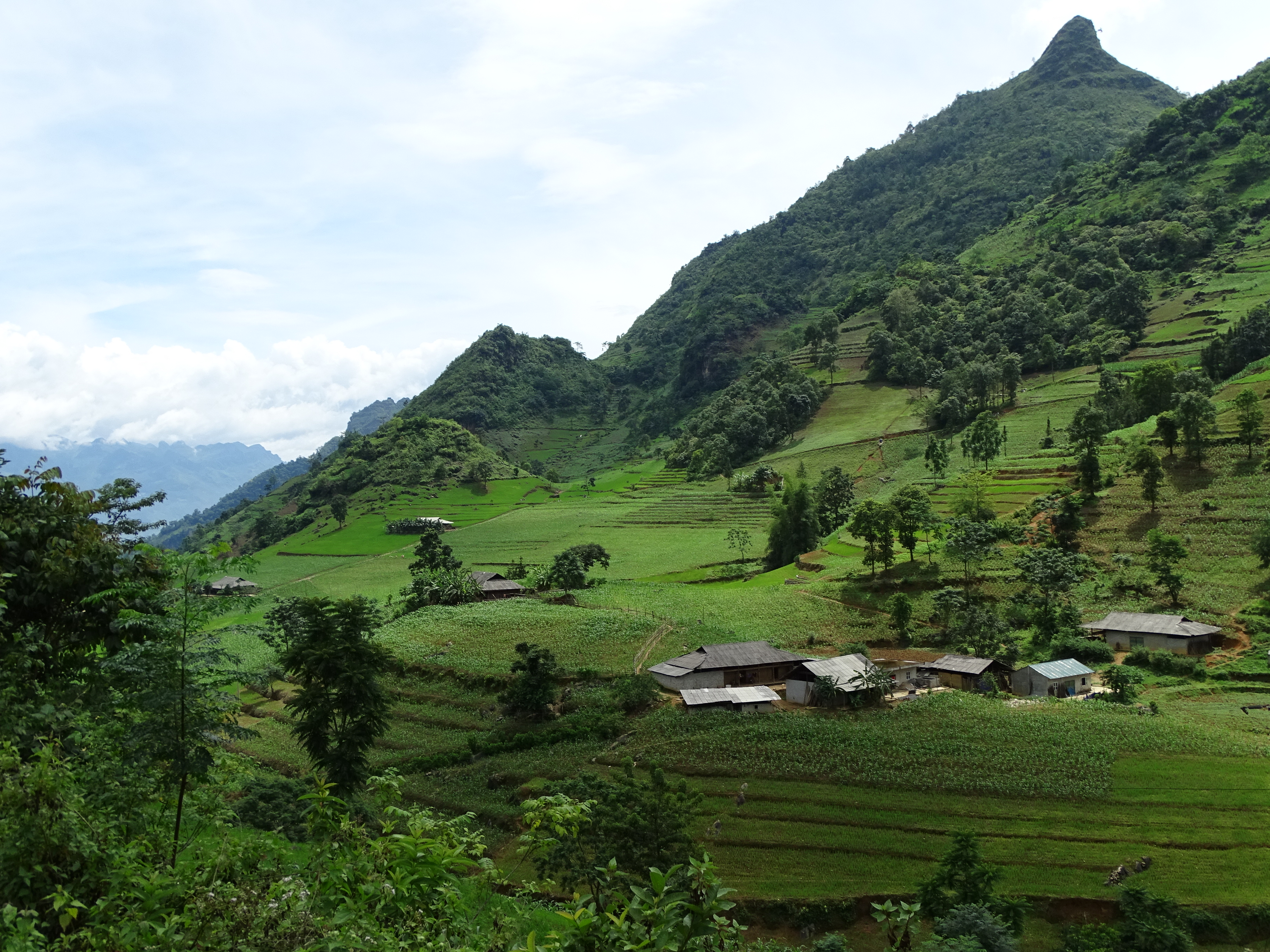 Scenery at Can Cau - Lao Cai Province - Vietnam - 06